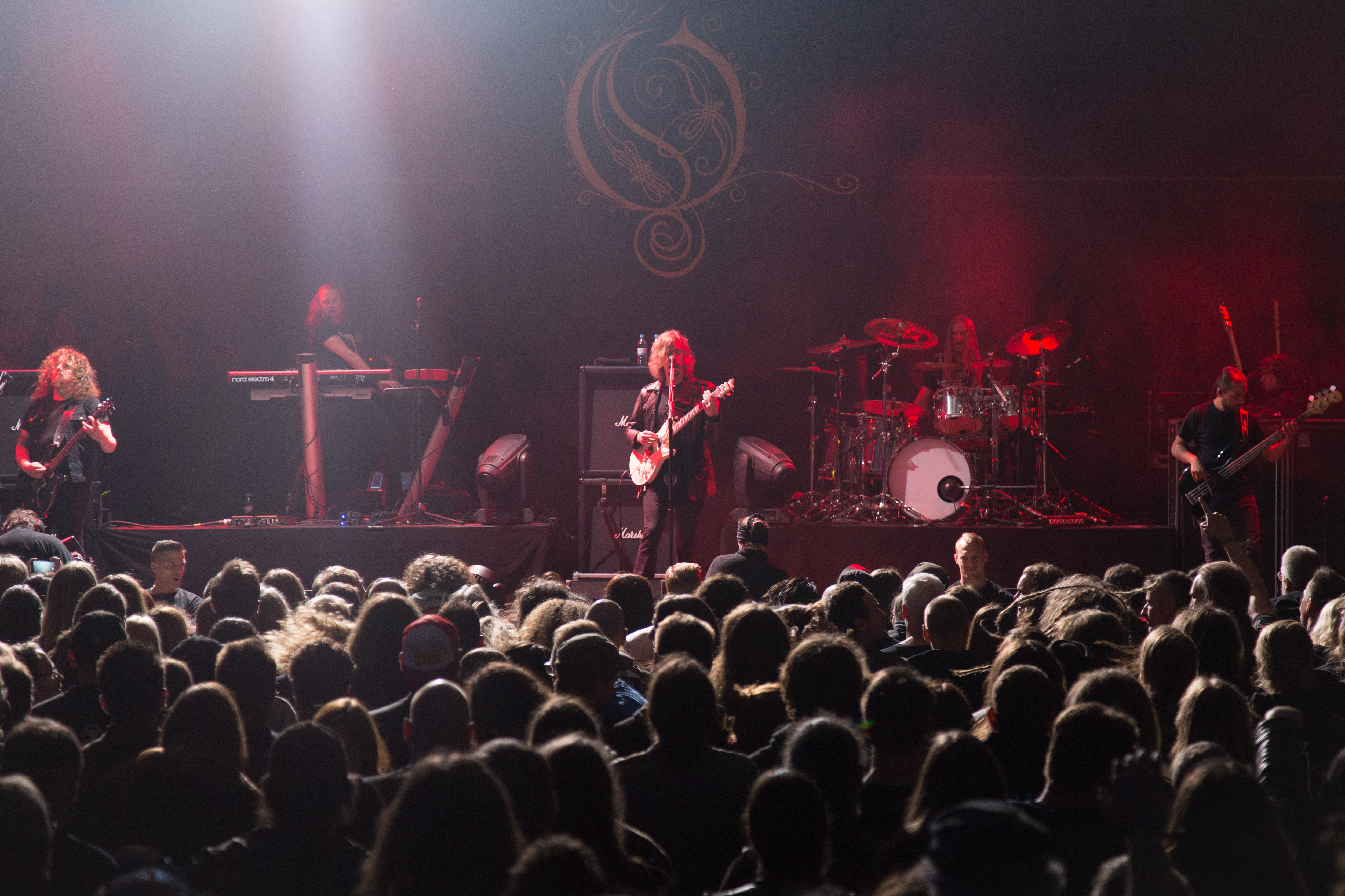 Opeth performing live at Rock Hard Festival 2017, Gelsenkirchen, Germany